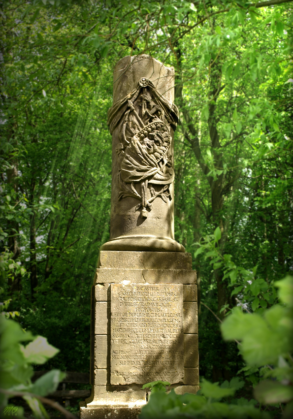 Monument Leopoldsäule